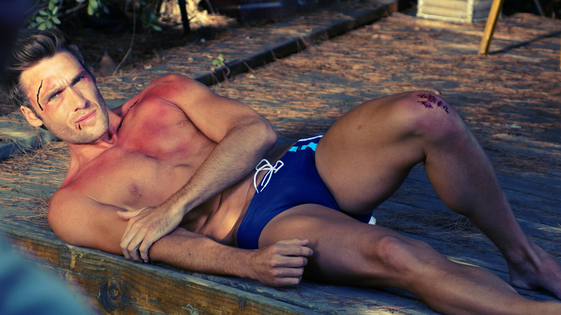 Kjord Davis next to the pool in Toto Forever (a film by Roberto F. Canuto)